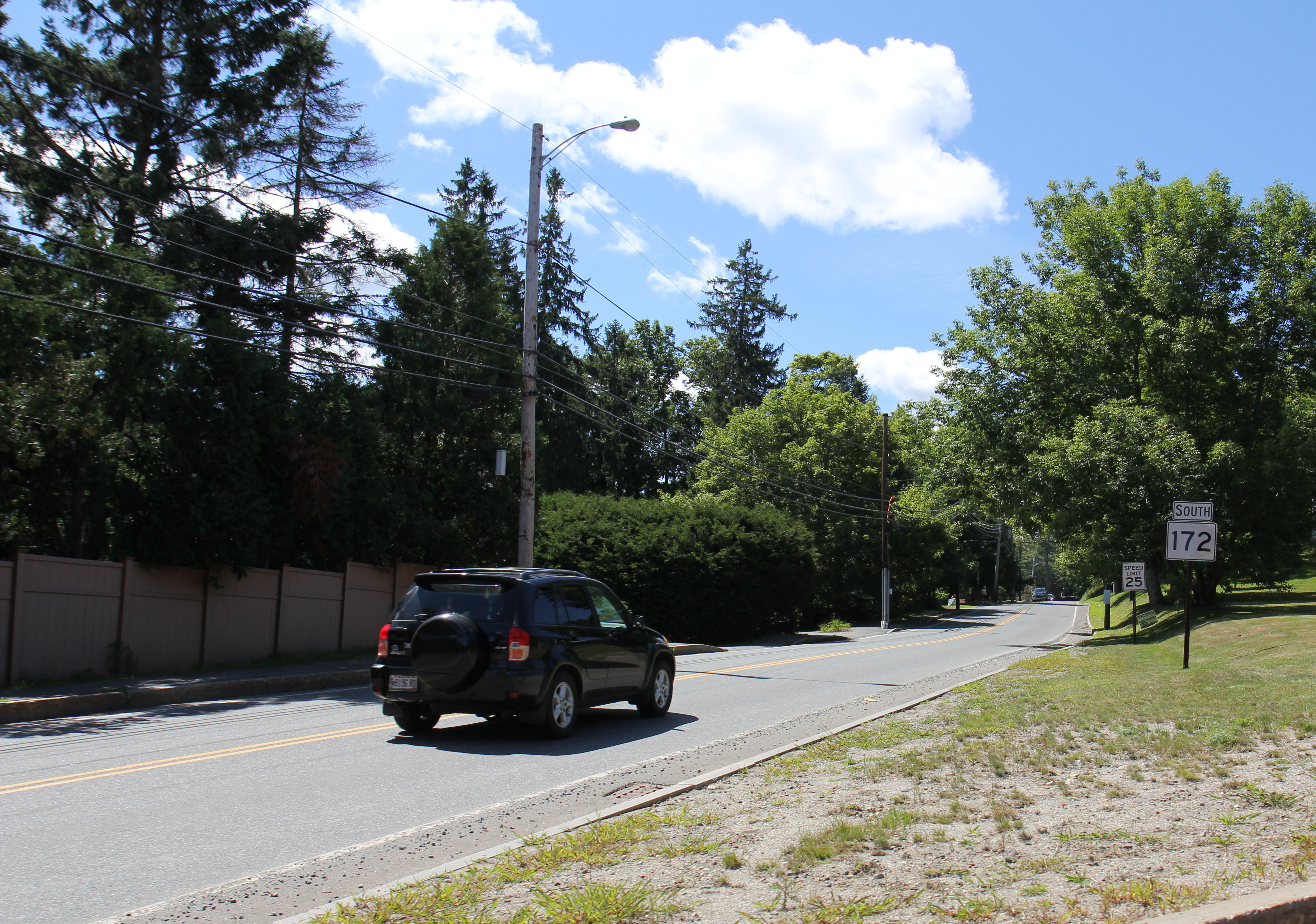 The northern terminus of Maine State Highway 172 on US Route 1 near Ellsworth